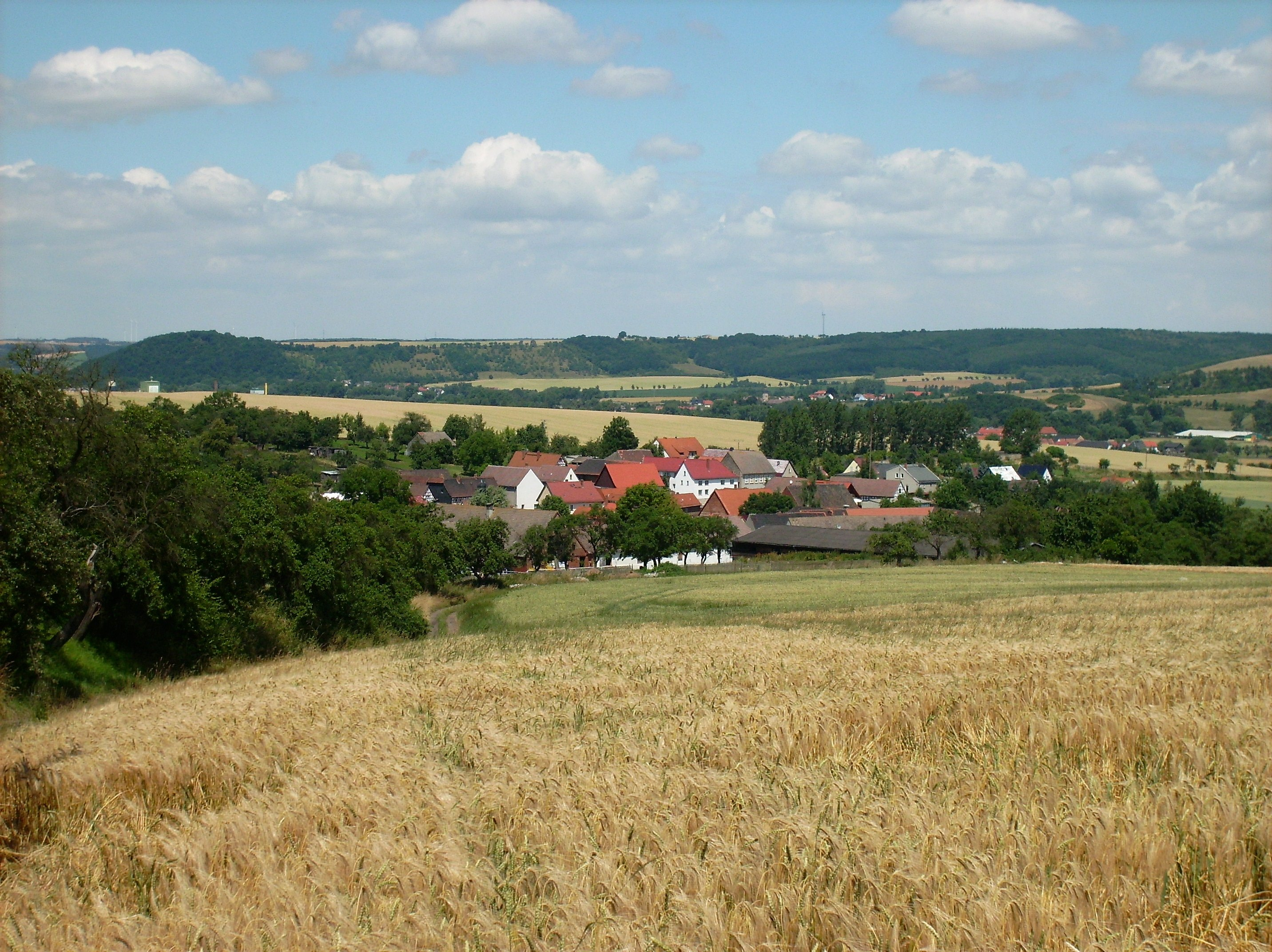 View of the village of Gleina (Bad Köstritz, Greiz district, Thuringia)